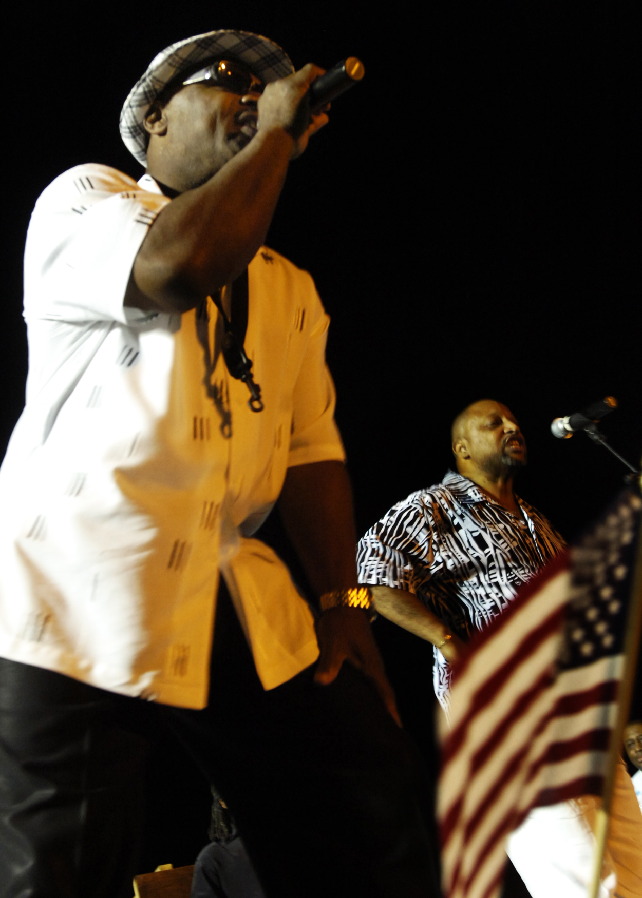 Bobby Harris, singer and saxophone player with the funk band "The Dazz Band," sings to Multi-National Division - Baghdad Soldiers at the Camp Liberty Post Exchange Stage May 29. The Legends of Funk will be performing five shows during their time overseas; one in Kuwait and four in Iraq two of which will be played on Camp Liberty.